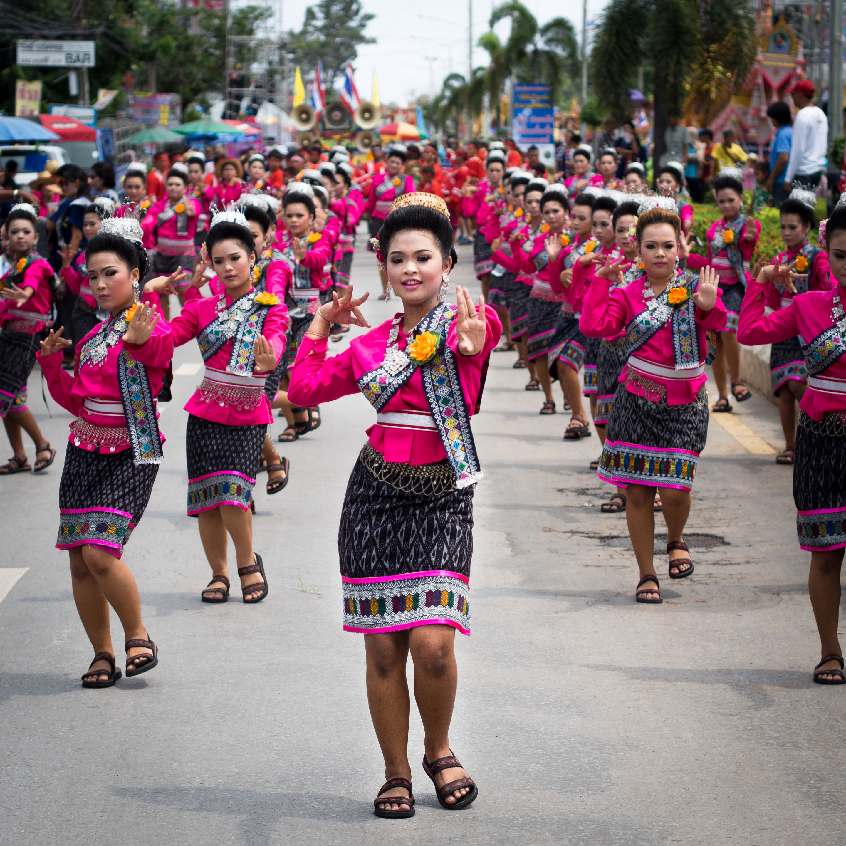 The parade was held on Saturday, 11 May, 2013; the second day of the festival.